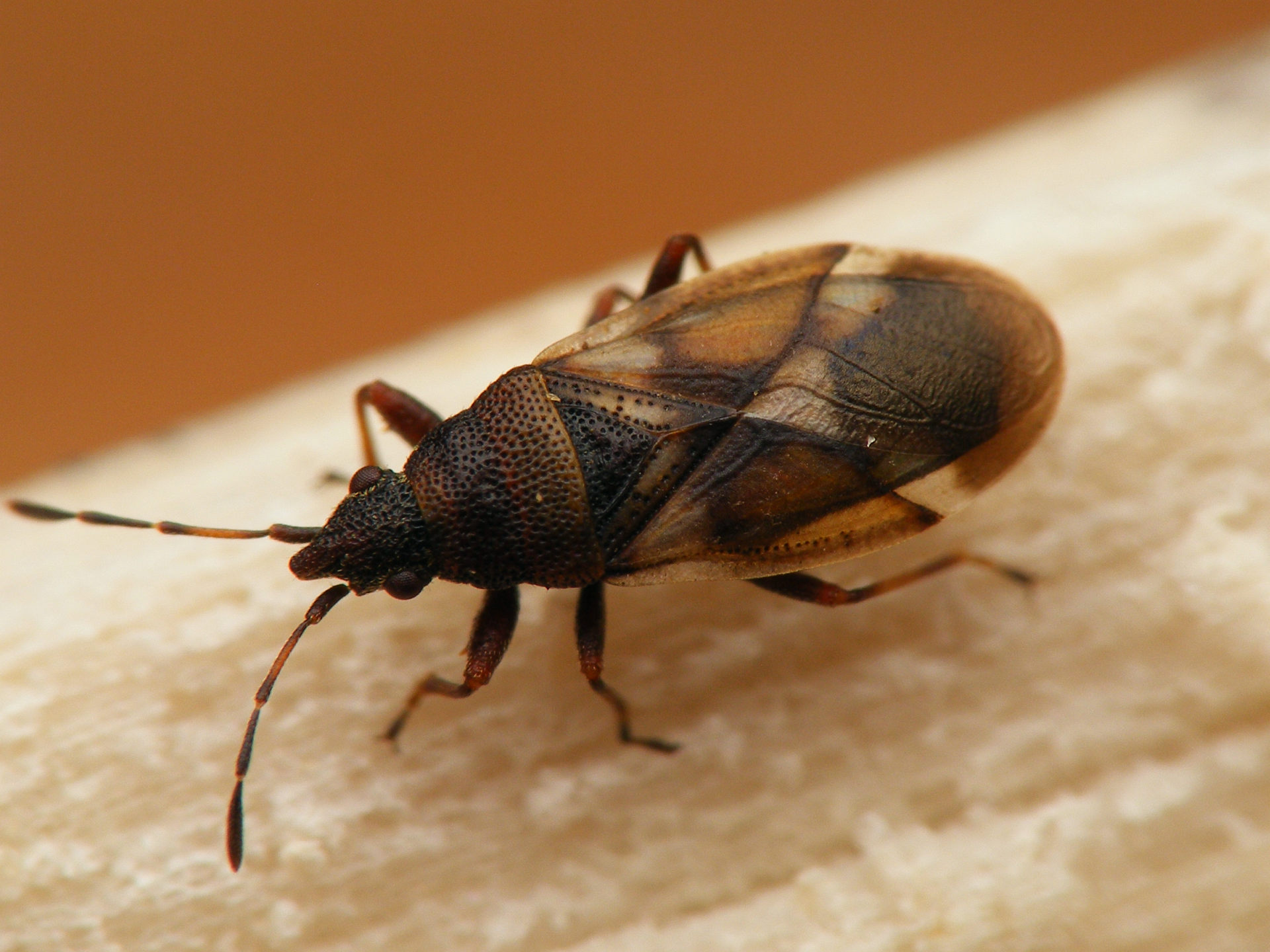 Oxycarenus modestuss, Kiersche Wieden, Overijssel, Netherlands. Various individuals all from the same location/date